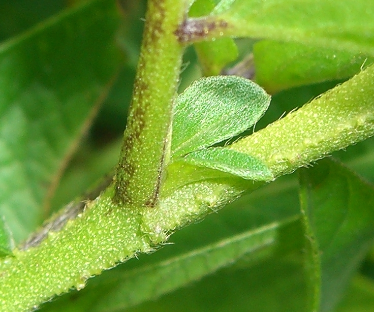 Please report references to .